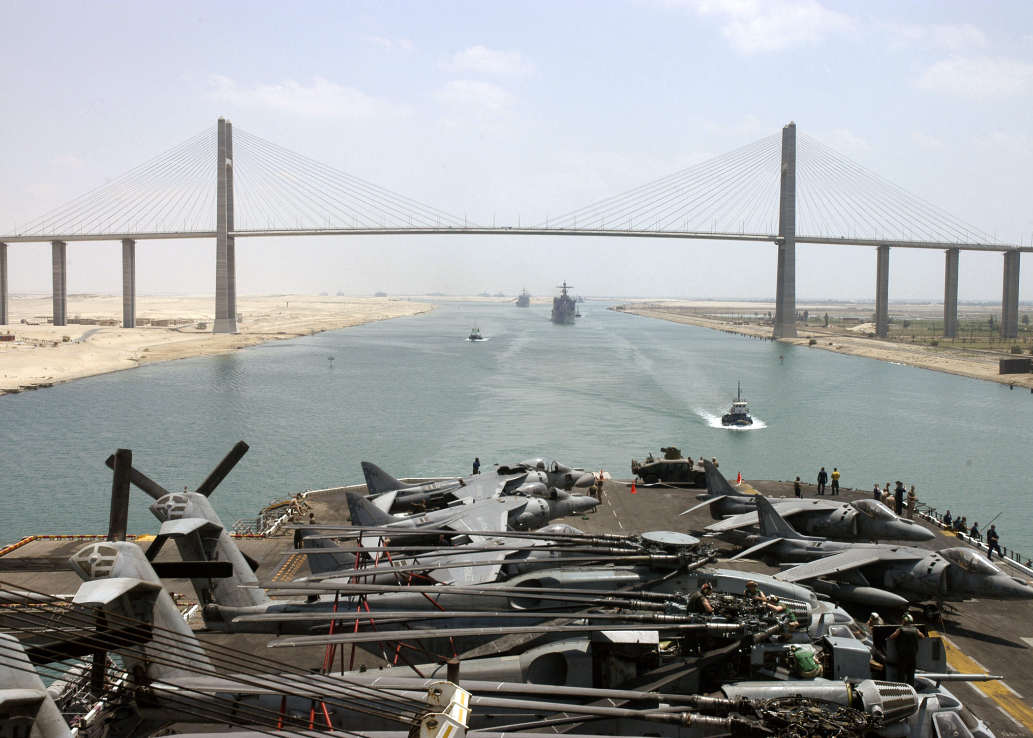 The dock landing ship USS Oak Hill (LSD 51), amphibious transport dock ship USS Shreveport (LPD 12) and the amphibious assault ship USS Bataan (LHD 5) pass the Mubarak Peace Bridge while transiting the Suez Canal as they depart U.S. Naval Central Command area of responsibility (AOR). Bataan got underway Jan. 4. for a regularly scheduled deployment as the flagship of the Bataan Expeditionary Strike Group in support of maritime operations.